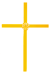 Rose and cross